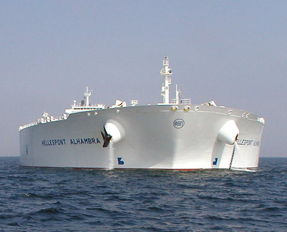 The supertanker Hellespont Alhambra in US waters for the first time on 16 May 2002. Now renamed the TI Asia, she is one of four TI class supertankers, the largest ocean going ships in the world as of 2008, since 2004.